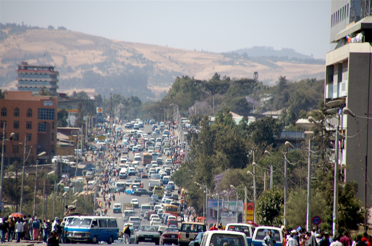 Street in Addis Abeba